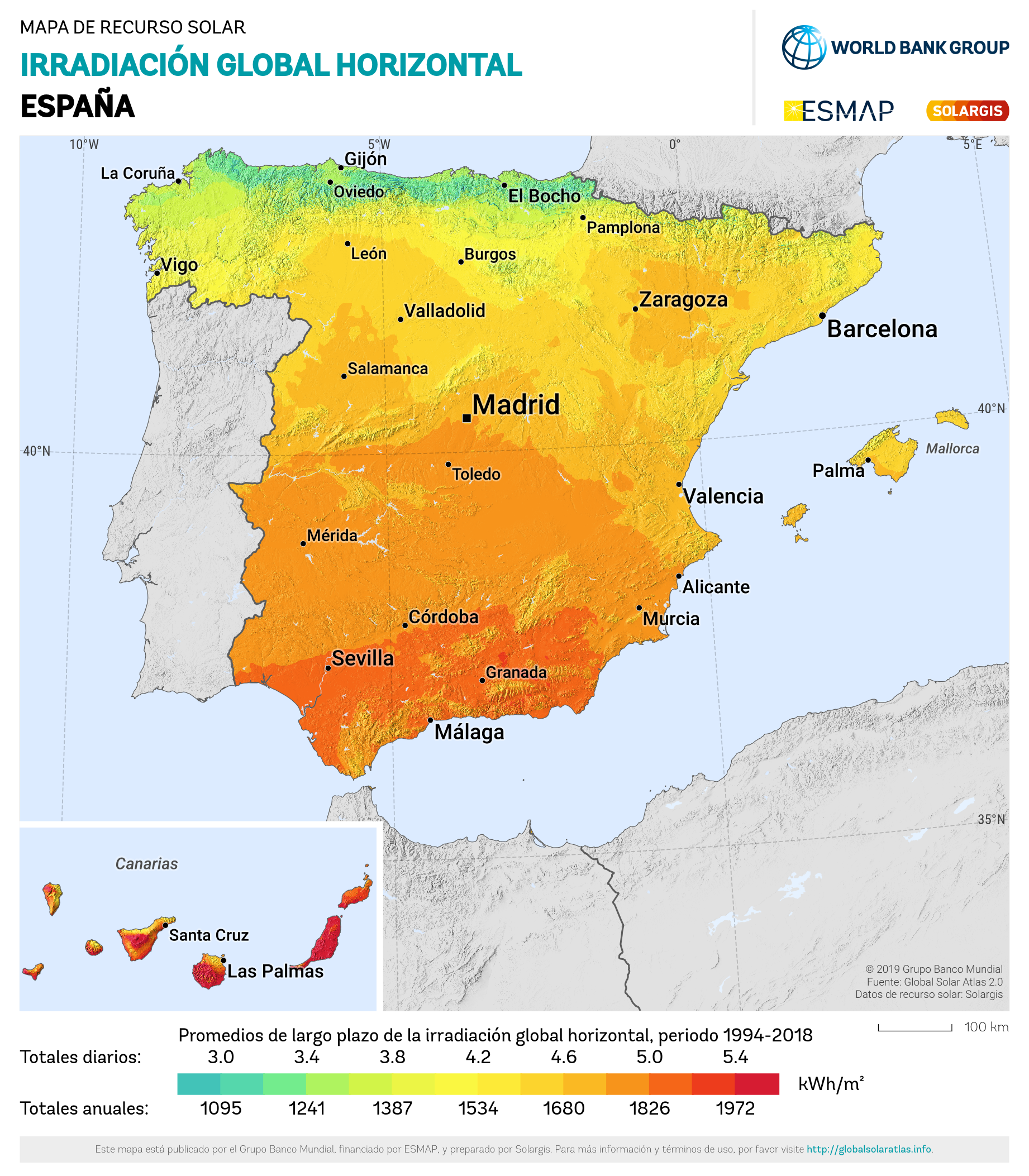 Solar Radiation Map: Irradiación global horizontal - España, SolarGIS 2011